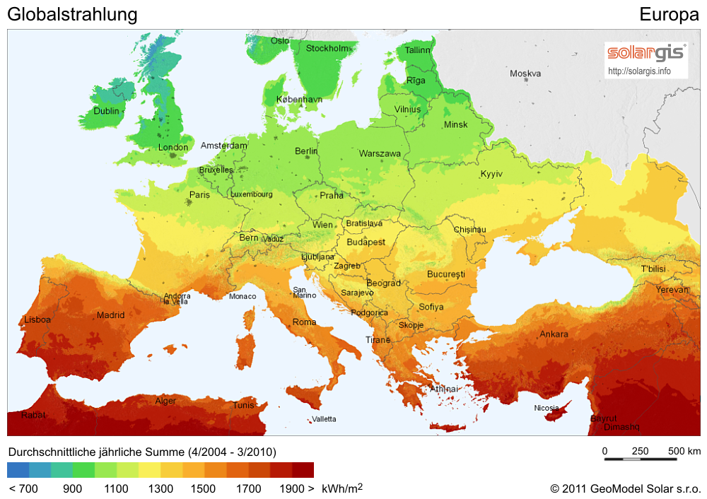 Solar Radiation Map of Europe - Globalstrahlung Europa, SolarGIS 2011